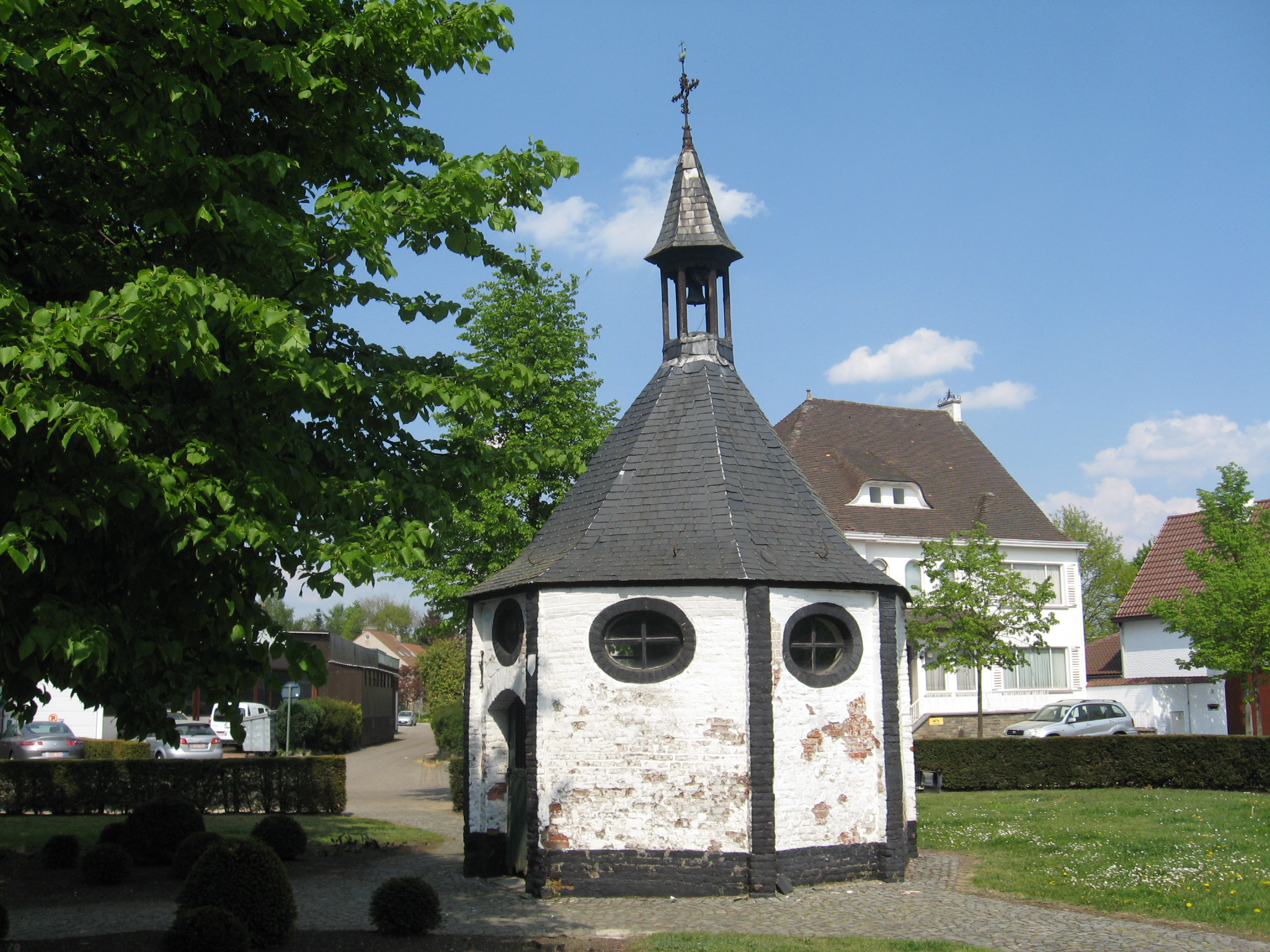 Chapel of Saint Mary at Kapelhof in Zonhoven, Limburg, België